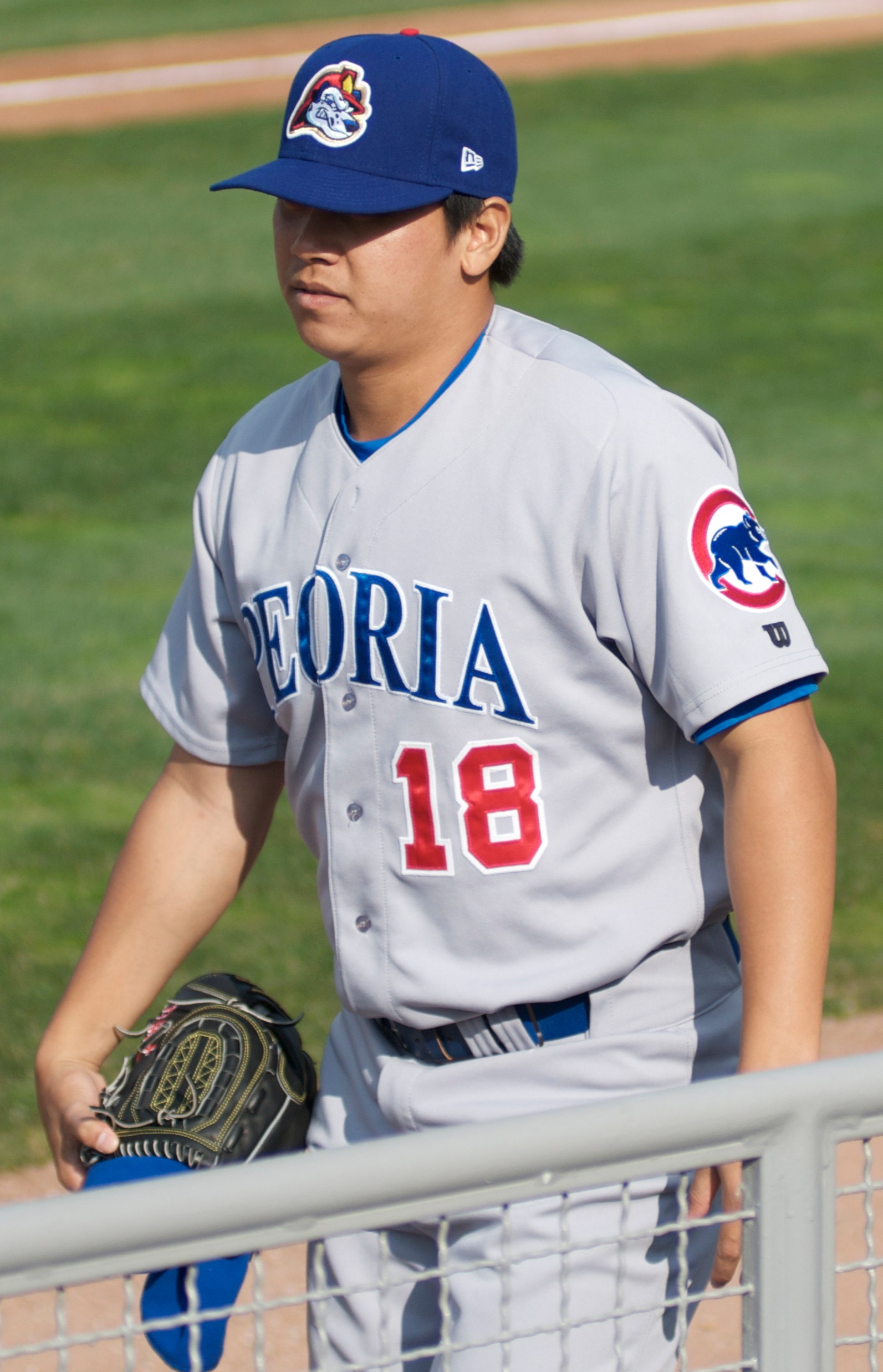 Hung-Wen Chen on April 21, 2008 with Peoria Chiefs.